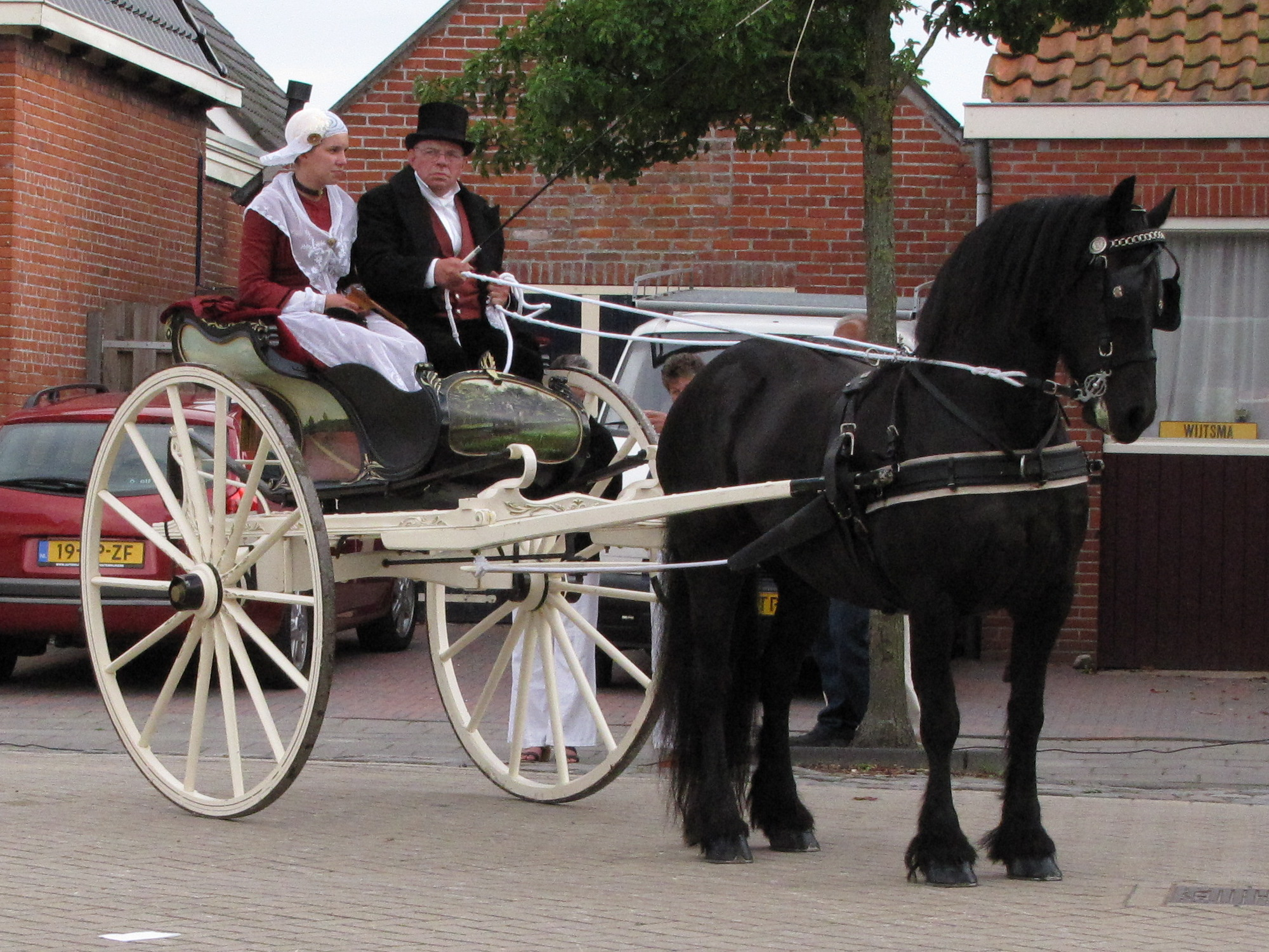 Ring riding in Ljoessens in Fryslân (the Netherlands) with an original Frisian chaise.